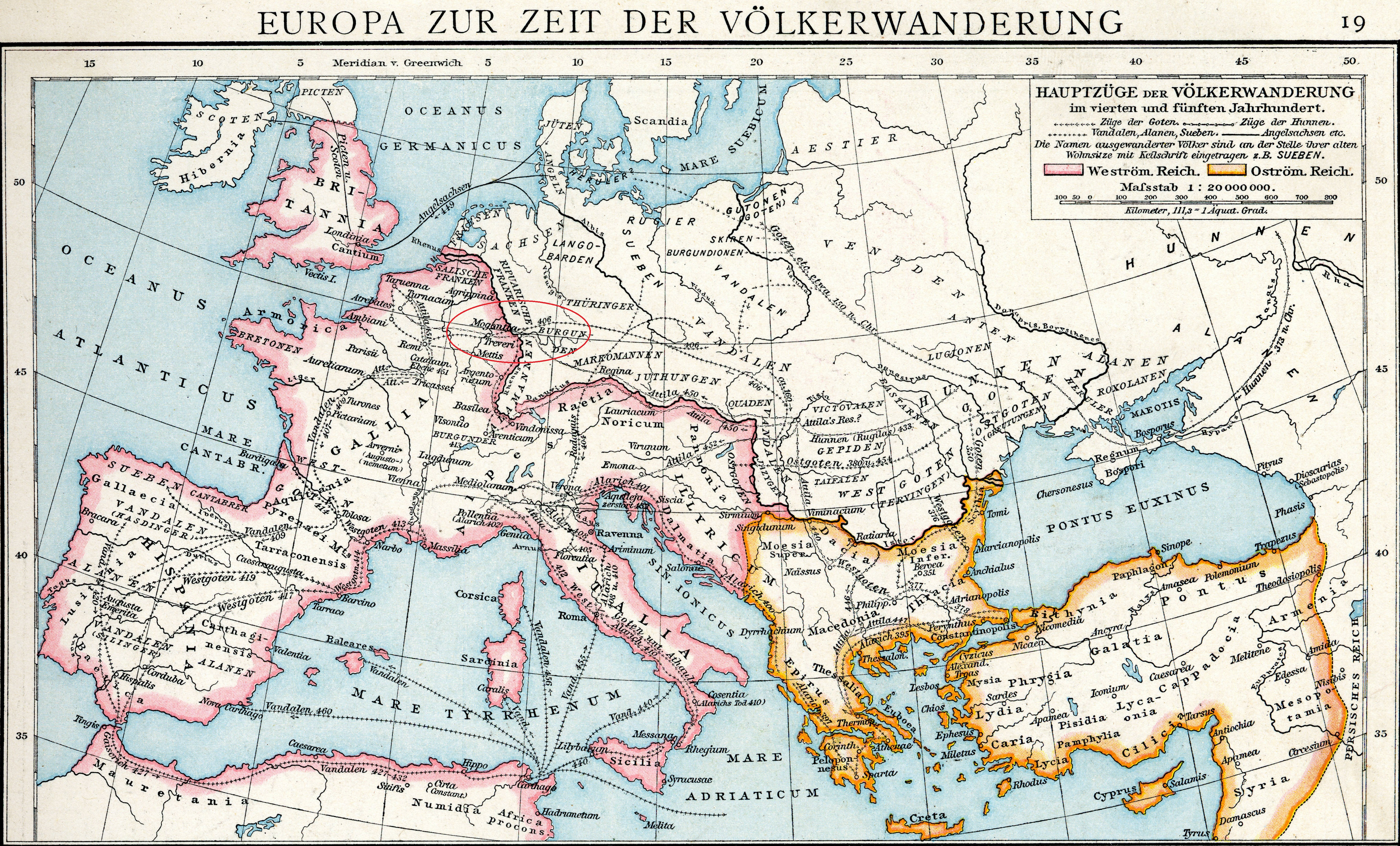 First map (of four) from plate 19 of Professor G. Droysens Allgemeiner Historischer Handatlas, published by R. Andree